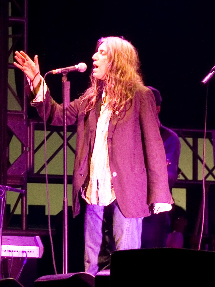 Patti Smith performing at All Tomorrow's Parties festival, Butlins, Somerset, United Kingdom.